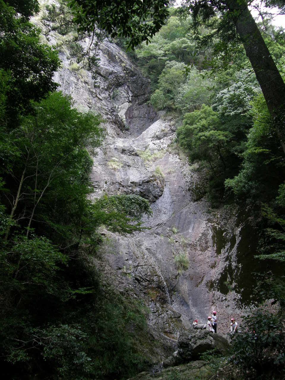 Nagusa-waterfall